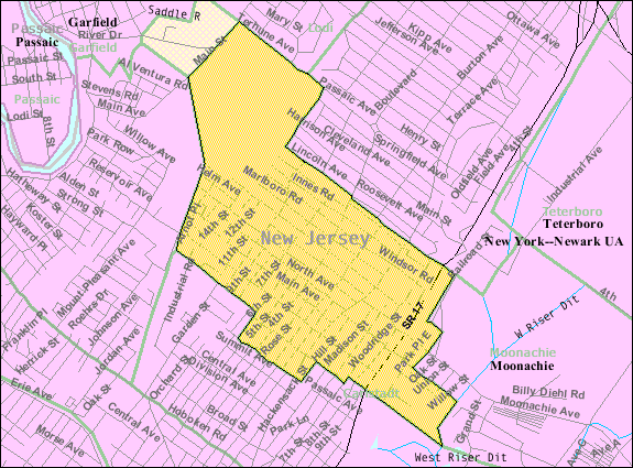 U.S. Census Bureau map of Wood-Ridge